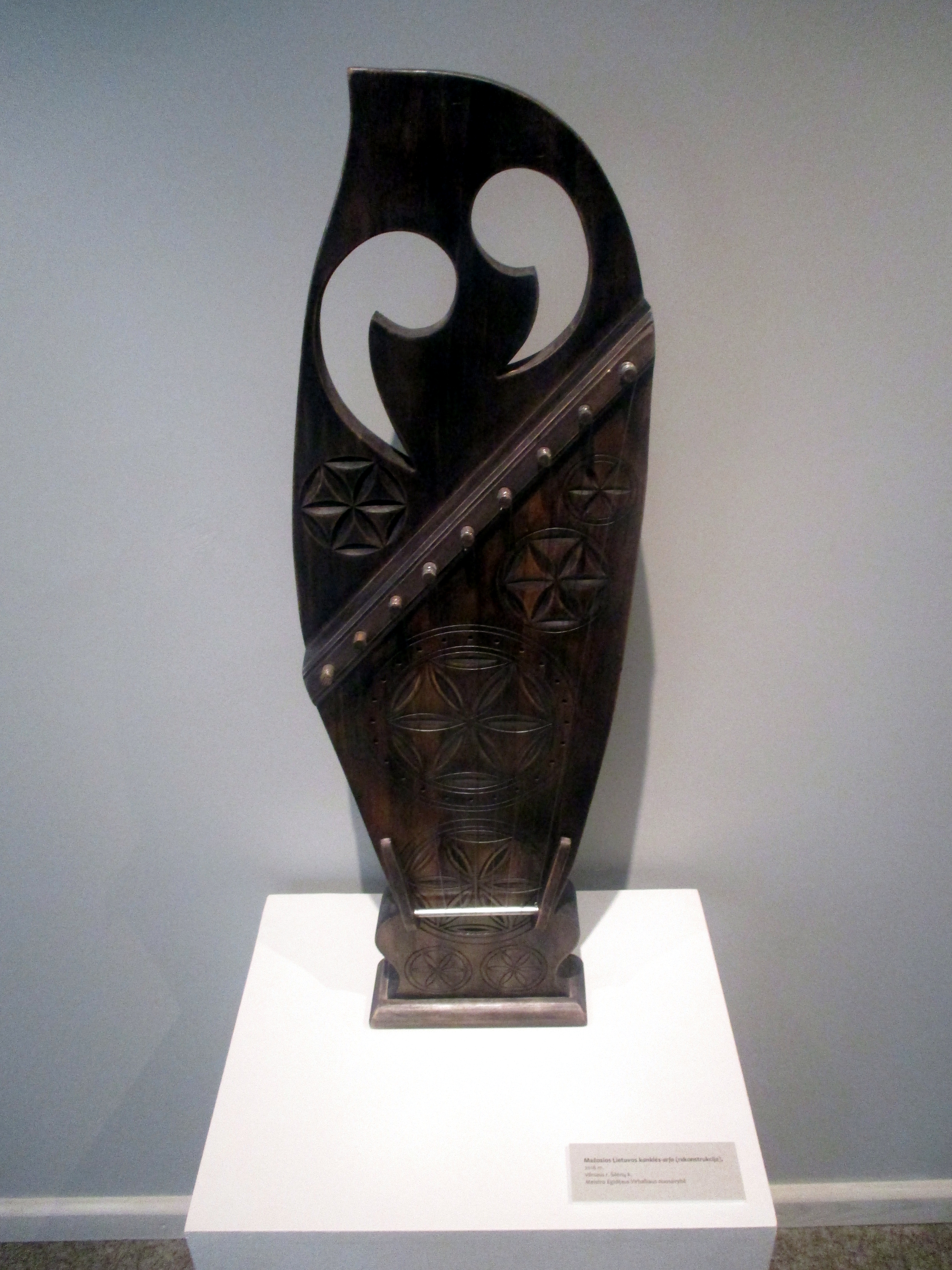 Kankles-harp of Lithuania Minor (reconstruction). Property of Egidijus Virbašius.